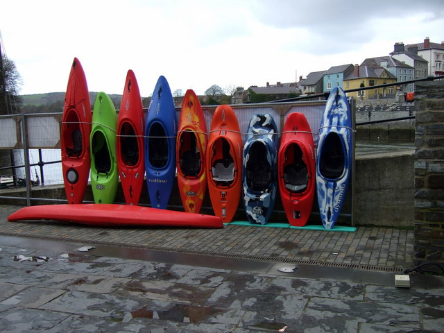 Kayaks by the Teifi The outdoor activity centre located here provides opportunities for sport and adventure on the river.